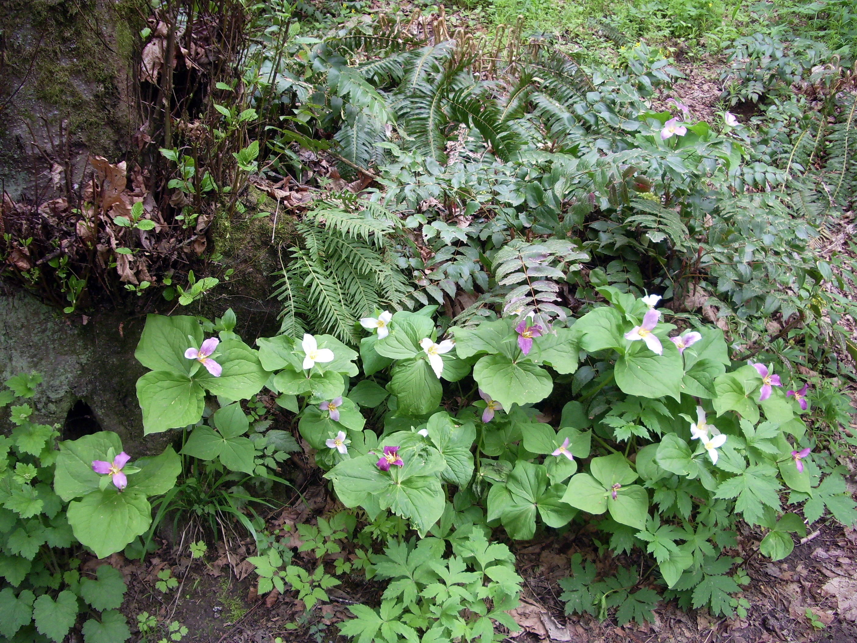 Trillium in Forest Park in early spring indicate their maturity by various petal colors seen here. It is somewhat unusual to find such a range of maturity in flowers so closely spaced. The flowers first open as a pure white and over the course of a few weeks turn pink and then deep purple. The color change sometimes occurs in splotches at first which is later not visible as the rest of the petals change color to match.